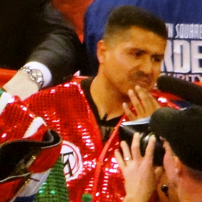 Robert Garcia (American boxer & boxing trainer) just before the fight, Antonio Margarito vs. Miguel Cotto II, at the Madison Square Garden on December 3, 2011.